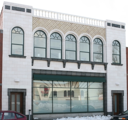 Vitrolite Building, Cleveland, Ohio. Home of the Intermuseum Conservation Association.